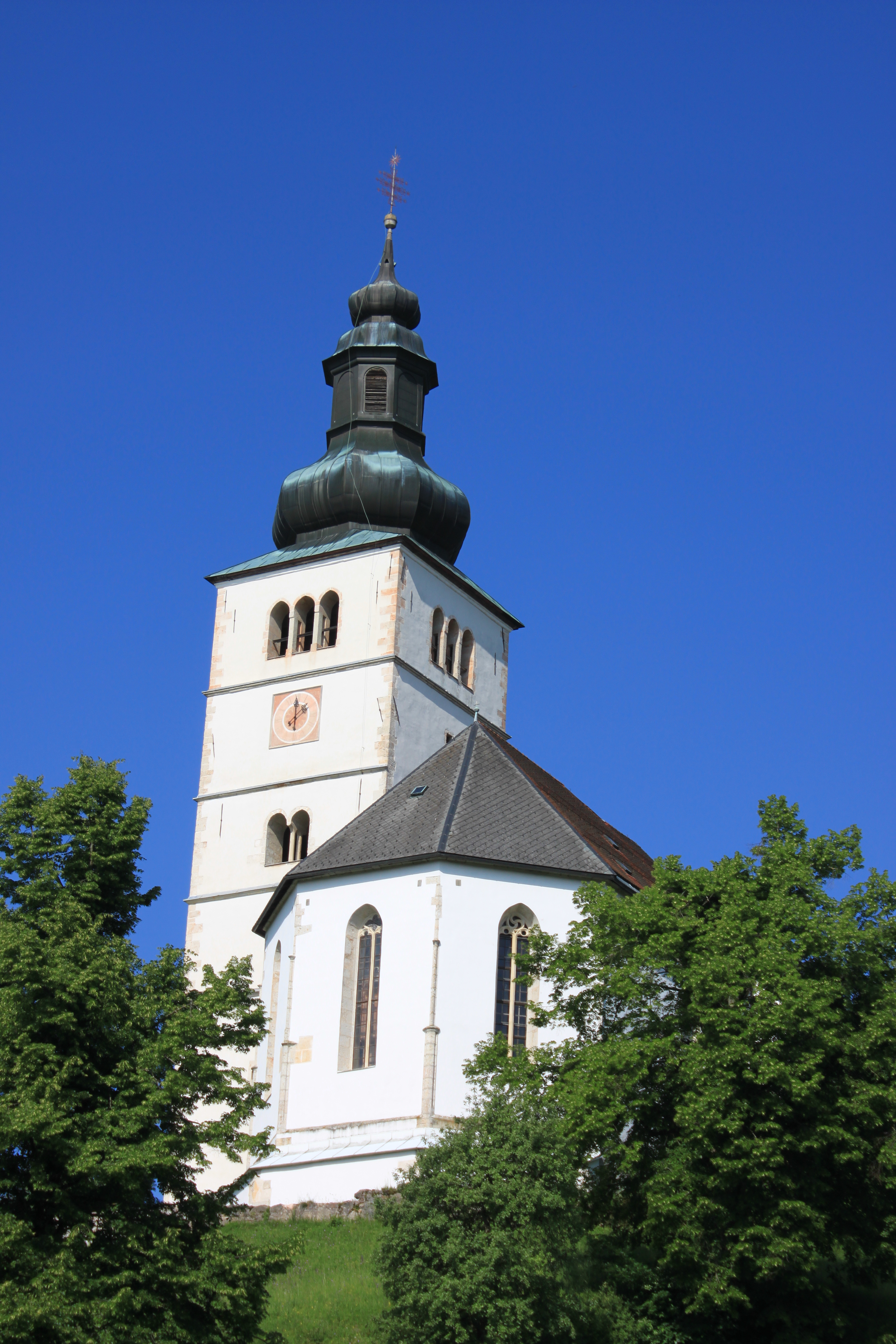 Annunciation Church in Crngrob, 13th century; Škofja Loka, Slovenia